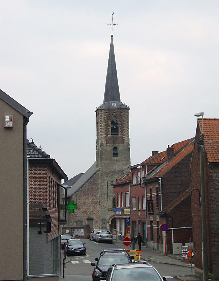 The Sint-Pauluskerk in Vossem in the municipality of Tervuren, Belgium. Photograph taken by myself on 5th November 2006.